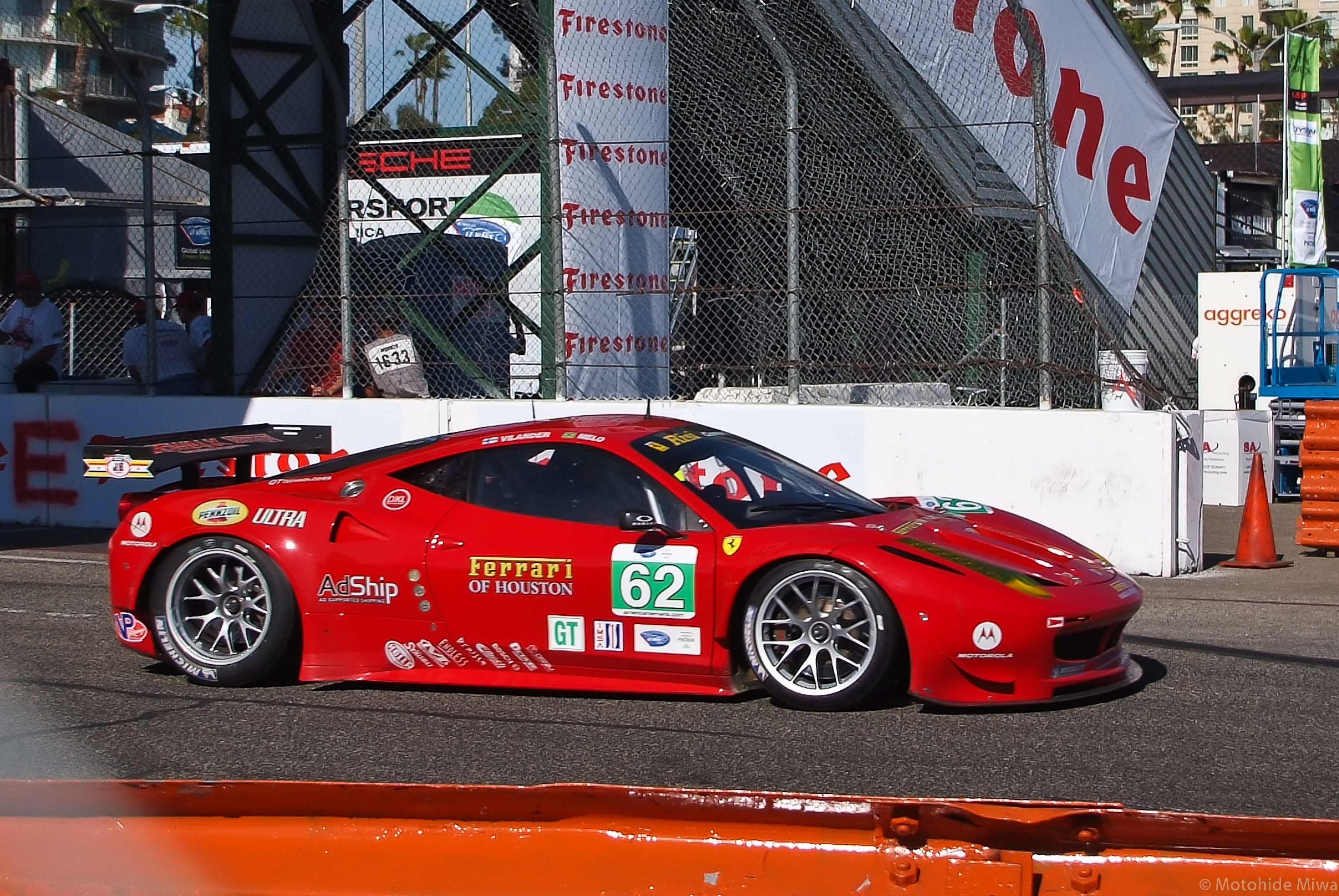 Risi Competizione Ferrari 458 GTC driven by Jaime Melo at the 2011 American Le Mans Series at Long Beach.